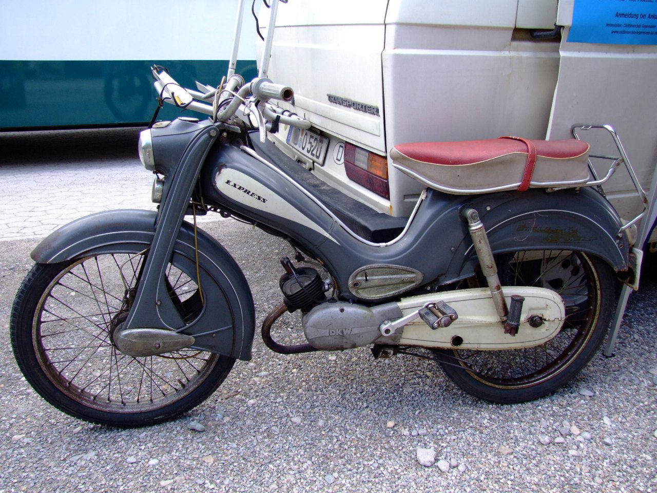 Express T.Sport DKW